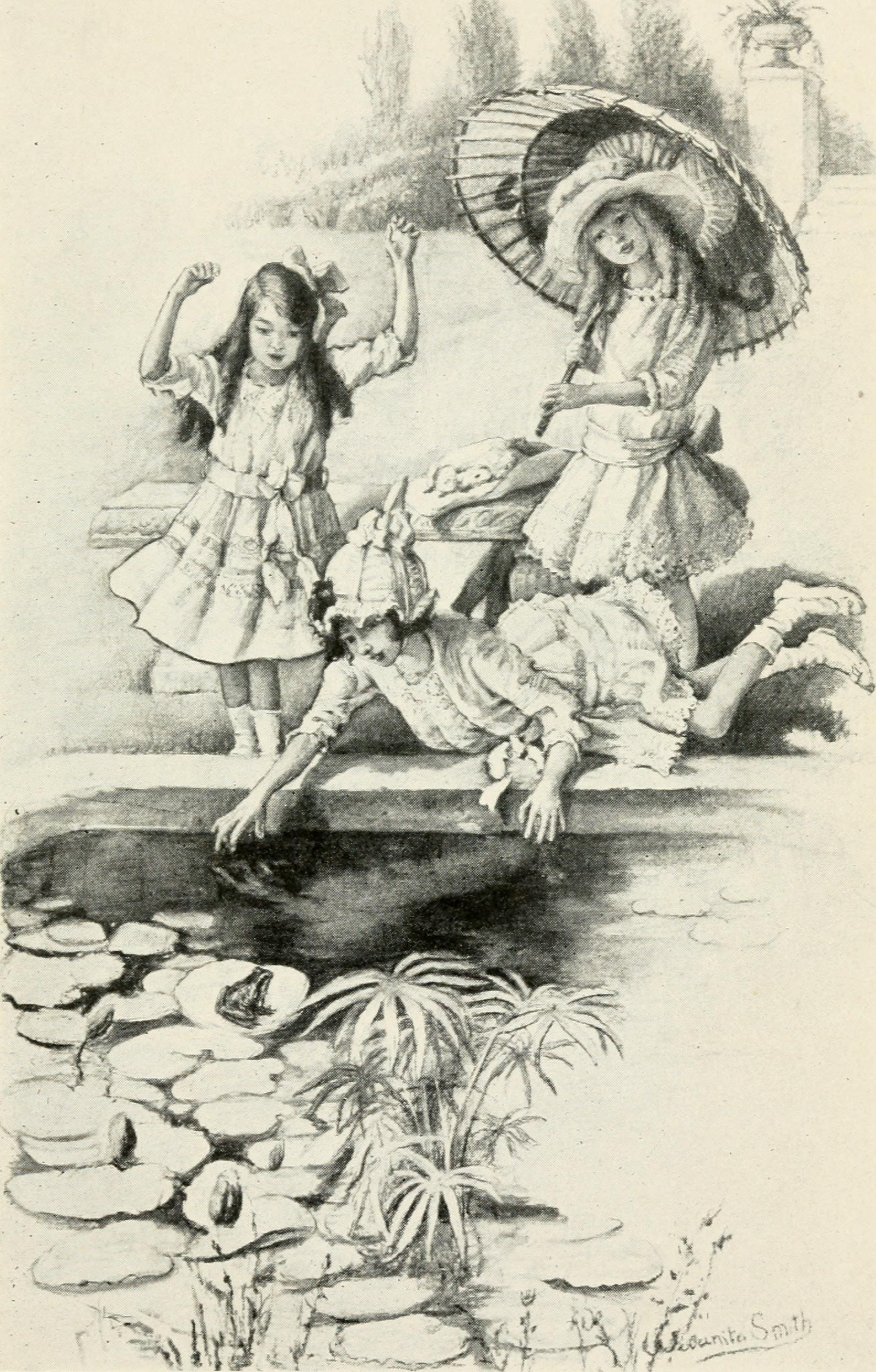 Title: Oh, Virginia! Year: 1920 (1920s) Authors: Griffith, Helen Sherman, 1873- Penn Publishing Company Smith, Wuanita Subjects: Publisher: Philadelphia : The Penn Publishing Company Text Appearing Before Image: had been. Why, Im a regular heroine, Gussie, sheexclaimed. Wont all the girls envy me!£ It doesnt sound just like the heroines Iveread about, objected Gussie. The ones inbooks usually get into some—some gracefulsort of trouble, with their golden locks wav-ing in the breeze and—and all that; and ahandsome hero comes to their rescue. ButJansen had to pull you out by your heels,Miss Jinks, and vour hair was all clammv */ «/ and plastered with mud. My word, you were a sight! jnt: c * she worked over you like a soldier till the doc- *- tor come. Dr. Penton said he guessed Mrs.Weatherby saved your life—while your mother Text Appearing After Image: .. OH, PSHAW, I LL BUDGE HIM! The Sunken Garden 107 was havin high-strikes and Mrs. Mac-whats-her-name was keepin her distance an tellinher husband in private that praps theyd havedone better to go to the Inn. Oh, I tell youMrs. Weatherbys all right. Shes a true lady,she is. Jinks sank back on her pillows with a groan. But they didnt go to the Inn, did they?Mother never would forgive me! You bet they didnt—hadnt any inten-tions. And I hated like poison to give thatmaid of theirs—with her Frenchy airs—myroom, grumbled Gussie. Well, I did you a good turn, anyhow,Gussie, giving you a chance to sleep in herewith me. And if you were too mean to saveme any candies, I know Ford kept me some. Well, itll be because I told him to, re-torted Gussie jealously. Im sure Ive neveryet give you the go-by, Miss Jinks. Jinks yawned and cuddled down. Of course you never have, Gussie. Yourean old clear. And I am a heroine, aint I?Good-night. CHAPTER VIII AN INVITATION TO DRIVE JINKSS pictures of app